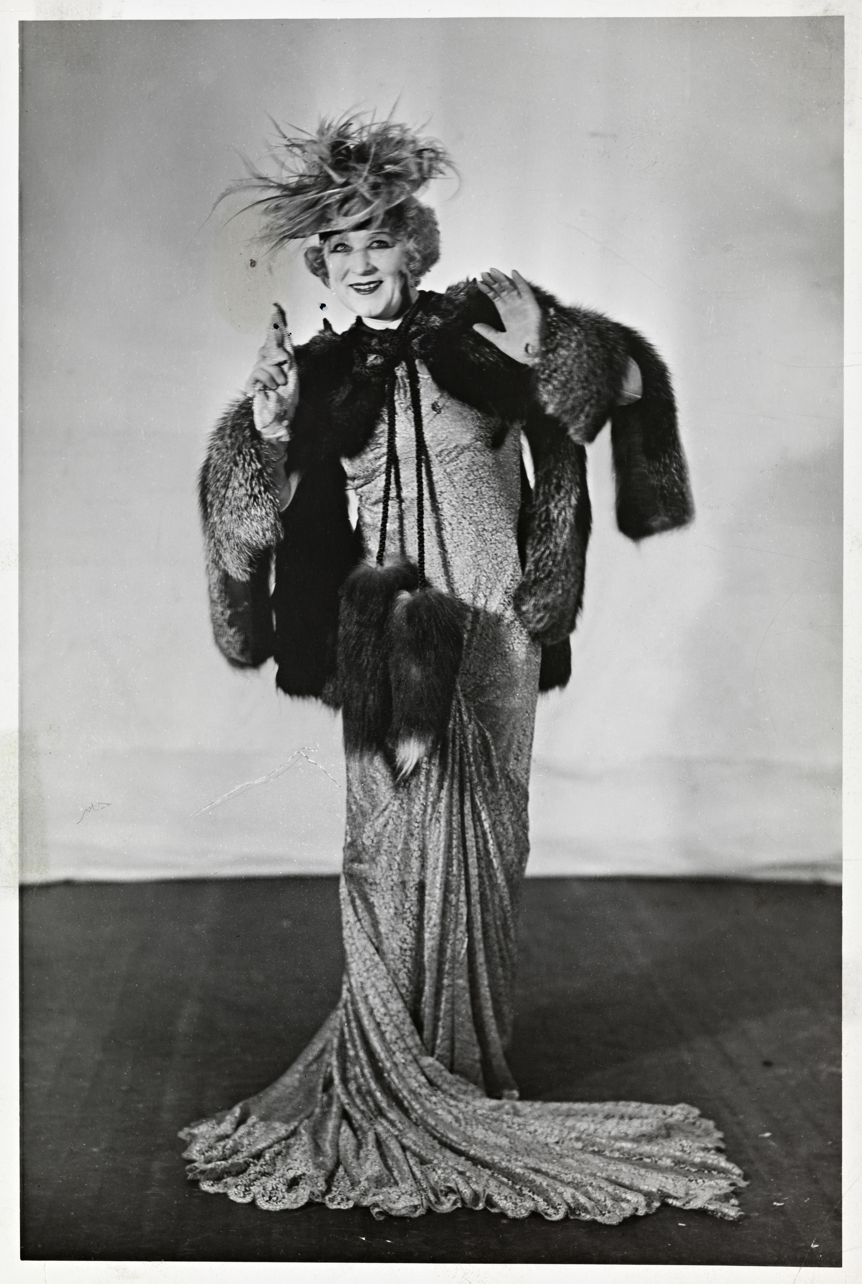 Beskrivelse / Description: Lalla Carlsen (egentlig Haralda Petrea Christensen) var skuespiller og sanger. Bildet stammer fra Gyldendals historiske portrettarkiv. Dato / Date: 1940 Fotograf / Photographer: Atelier Eidem A/S Digital kopi av original / Digital copy of original: s/h papirpositiv Eier / Owner Institution: Nasjonalbiblioteket / National Library of Norway Lenke / Link: Bildesignatur / Image Number: blds_06041